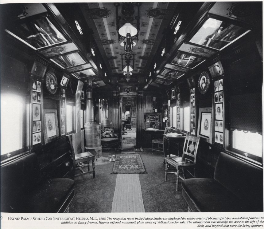 Interior of Haynes (Frank Jay Haynes) Palace Studio Car, Northern Pacific Railroad, 1886